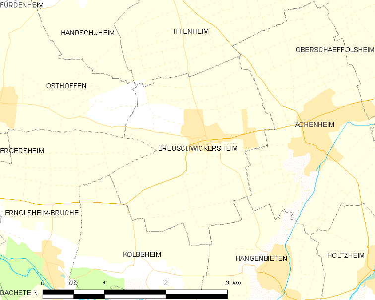 Map of French municipality